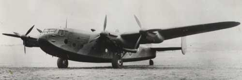 The "Ascalon", the prototype for the Avro York transport later used as Churchill's private aircraft. Royal Air Force period photo.